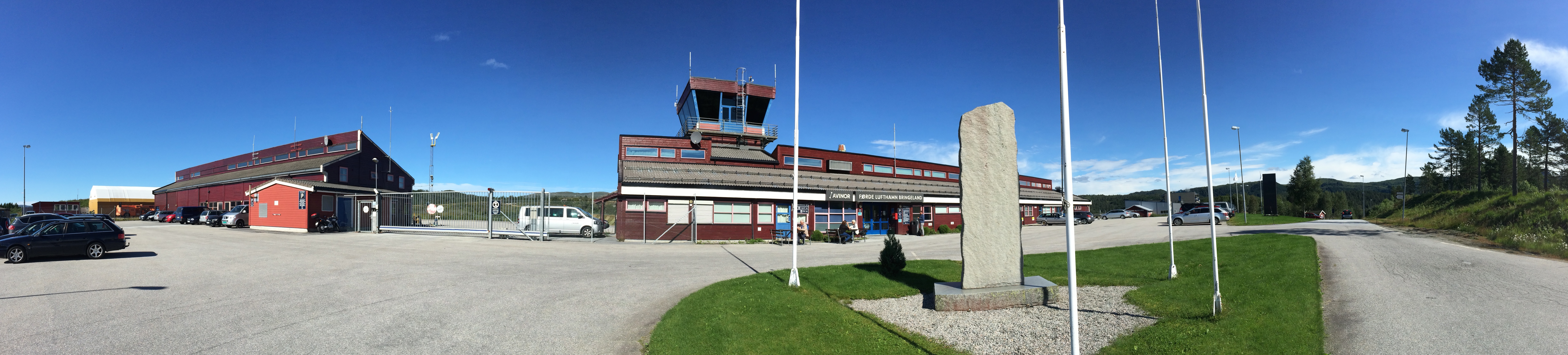 Panorma (slightly distorted) of Førde Airport, Bringeland (Førde lufthamn, Bringeland) in Førde, Norway, September 3, 2015.